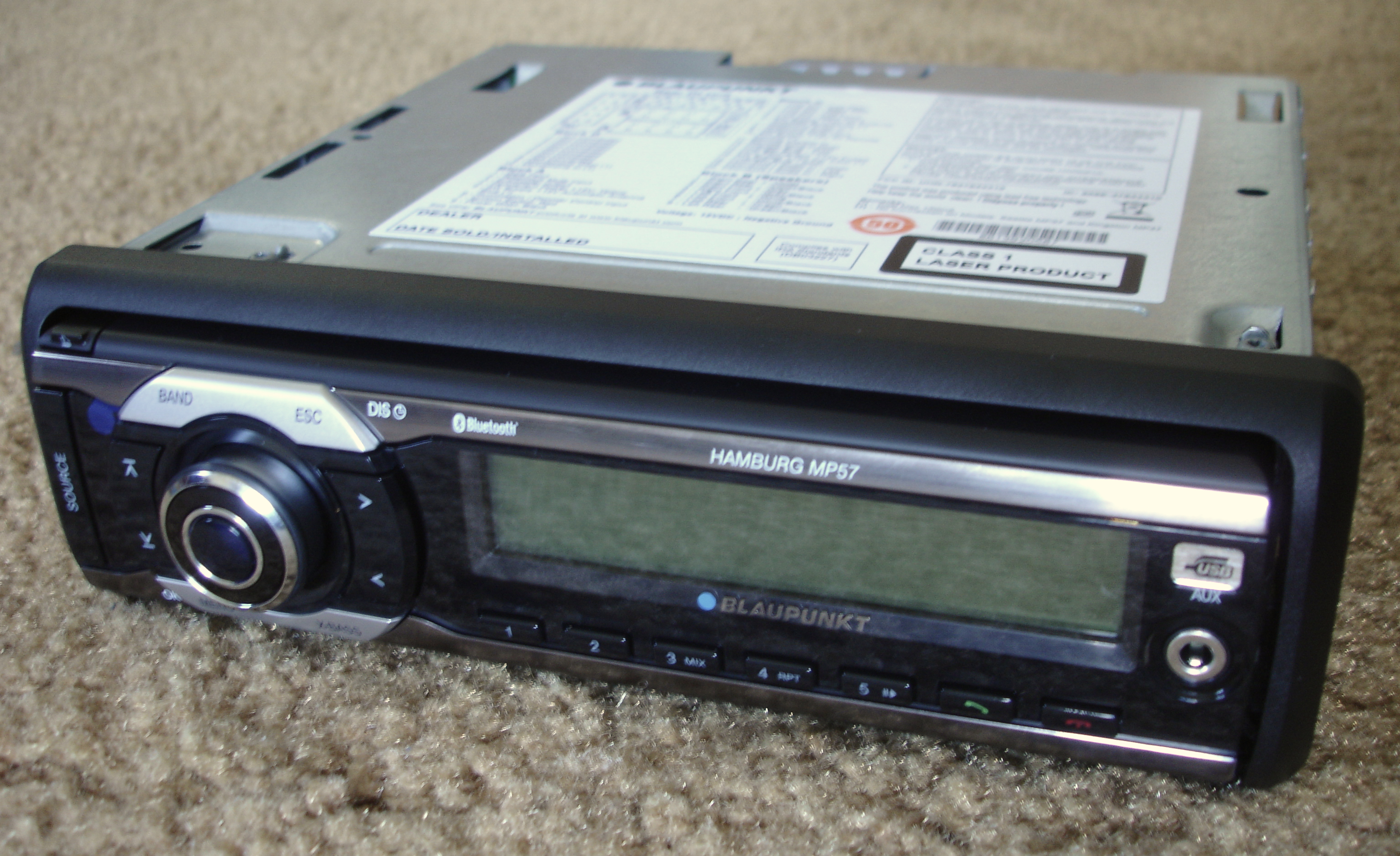 Blaupunkt Hamburg MP57 Bluetooth stereo head unit, in front profile perspective view.